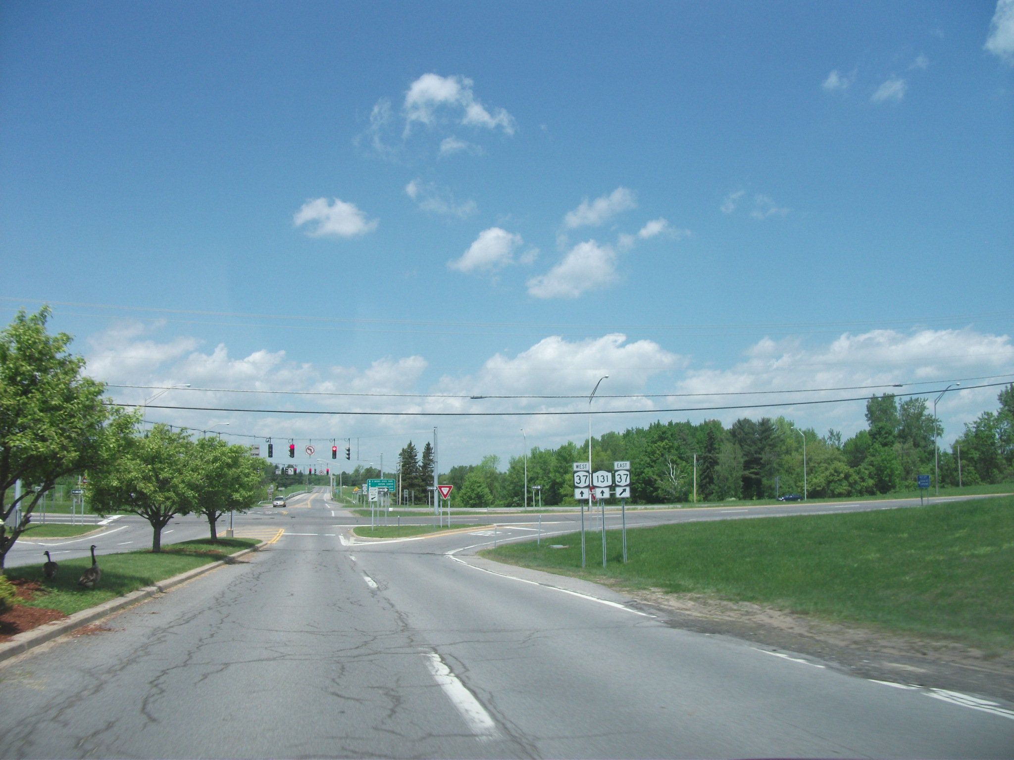 New York State Route 131 seen from an intersection with New York State Route 37 in Massena.